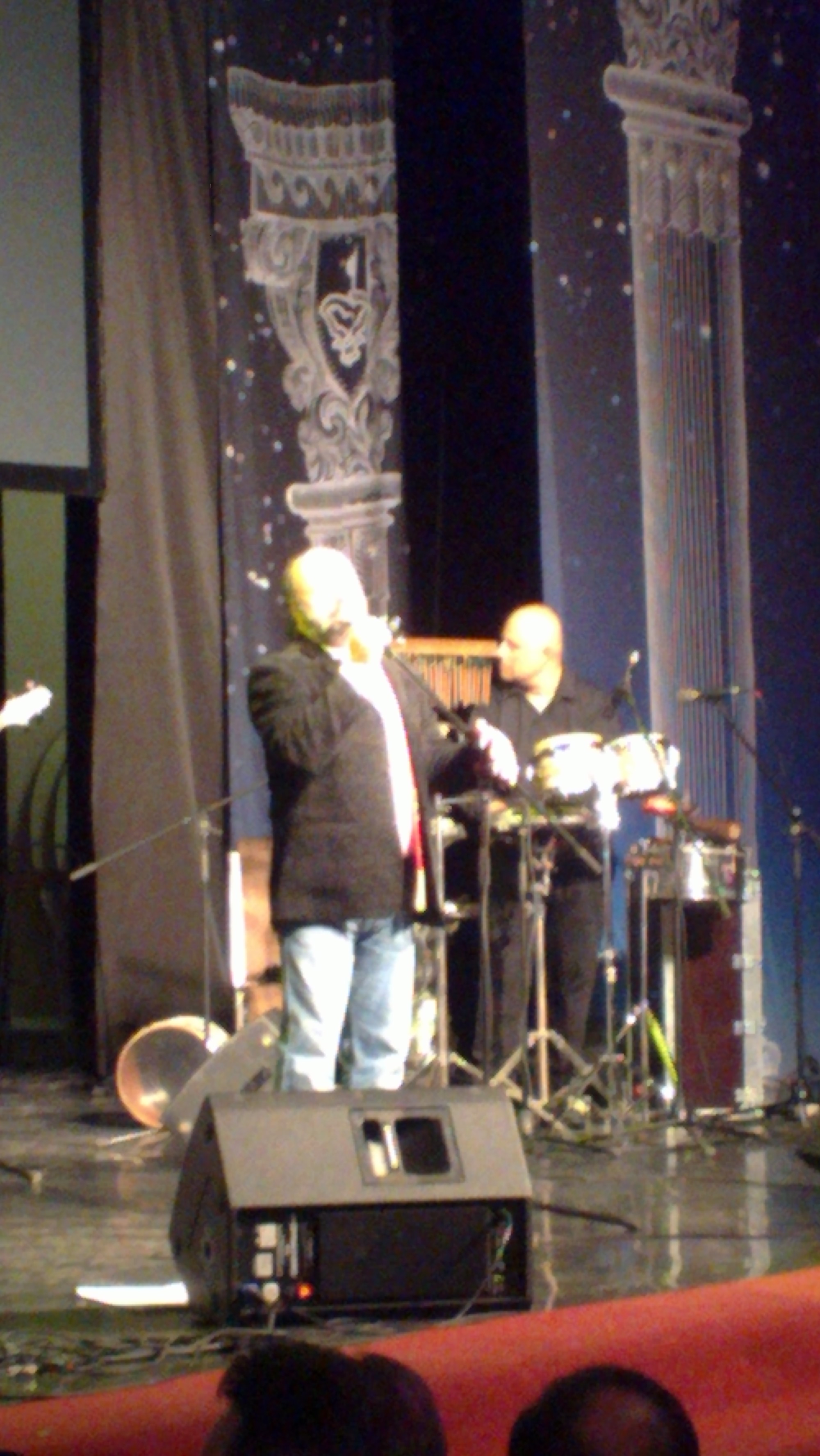 Karnig Sarkissian concert in Moscow, 2012 december 2